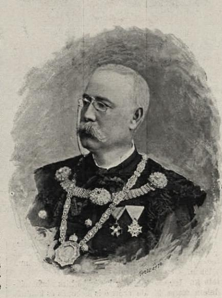 Ágoston Kanitz